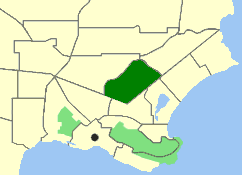 Map of the suburb of Spencer Park in Albany, Western Australia.